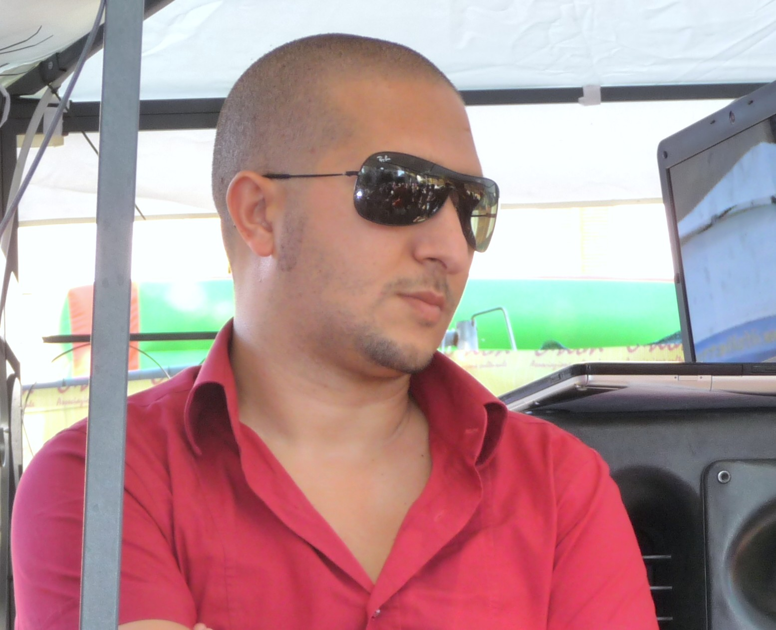 Gianluca Crisafi during Cartoon Village - Abbadia San Salvatore